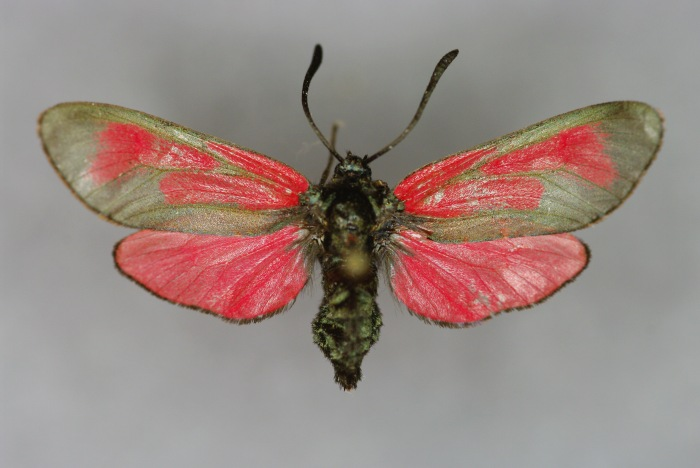 Zygaena (Mesembrynus) purpuralis, Weibchen